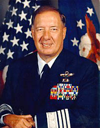 General Charles A. Horner from [1]